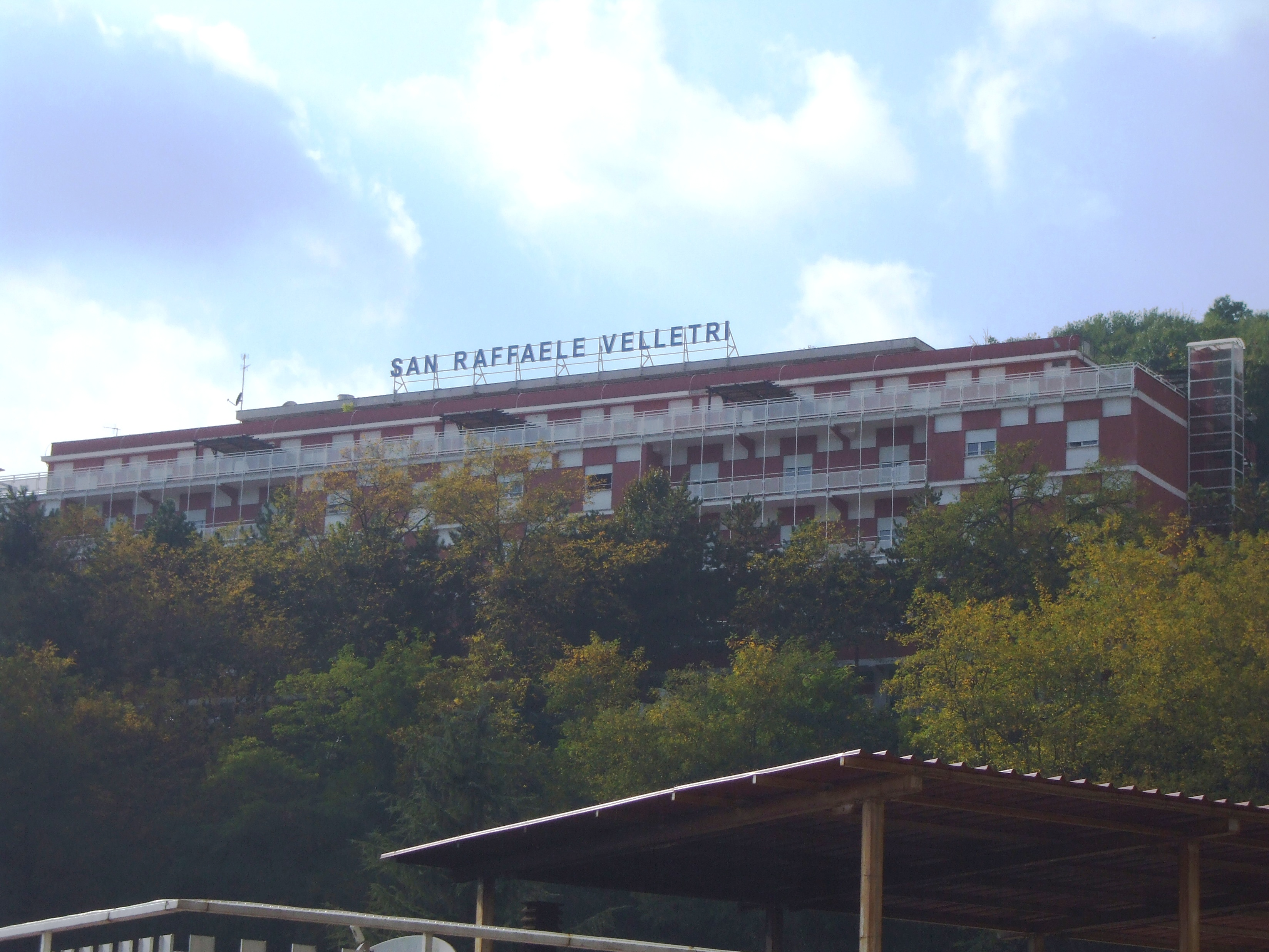 Velletri - San Raffaele Hospital